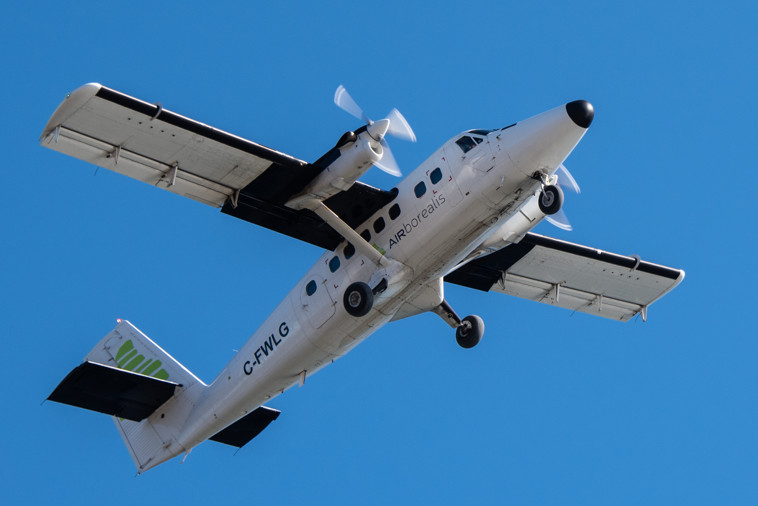 De Havilland Canada DHC-6-300 Twin Otter C-FWLG flown by Air Borealis (associated with PAL Airlines) taking off from Nain Airport, Labrador Canada on October 2, 2017.